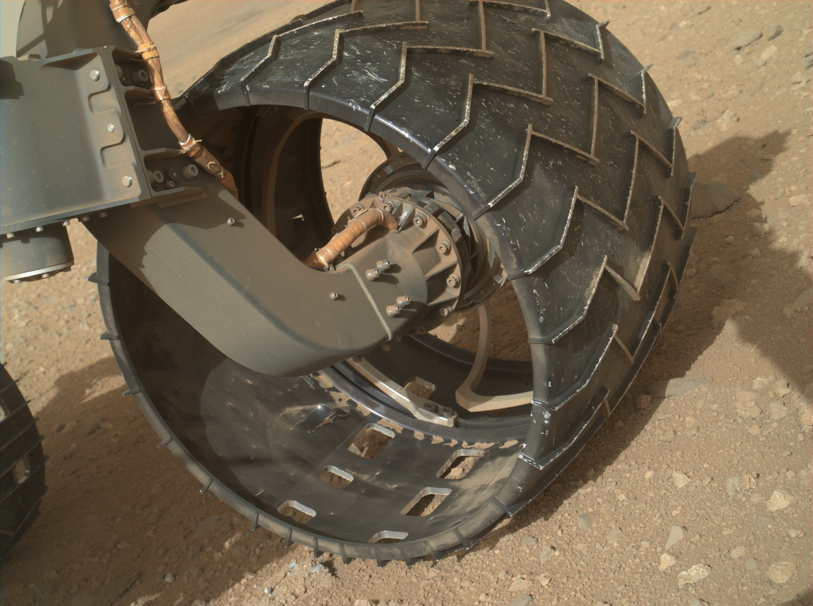 This view of NASA's Curiosity rover's left front wheel was taken using the Mars Hand Lens Imager (MAHLI) on the turret at the end of the rover's robotic arm, on 2 October 2013, Sol 411 of the Mars Science Laboratory Mission, at 13:24:59 UTC. A small hole is visible, torn in the bottom of the wheel, a minor routine damage just behind the six apertures on the bottom of the wheel.